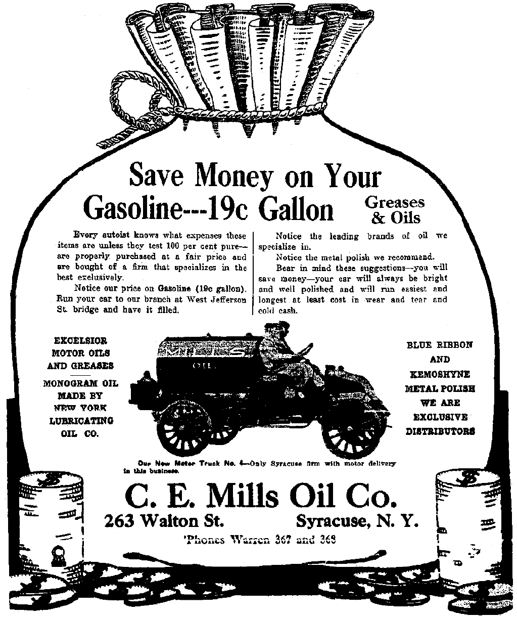 C. E. Mills Oil Company and their new Palmer-Moore truck in Syracuse, New York